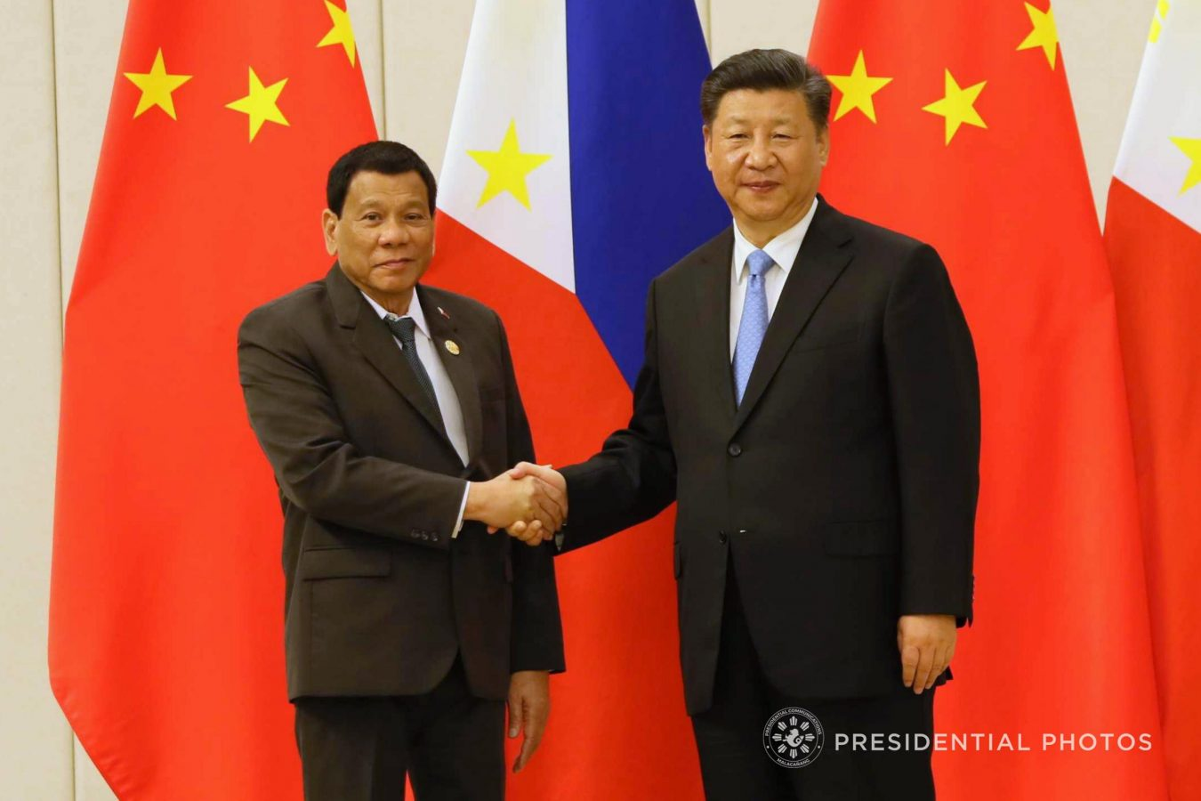 President Rodrigo Roa Duterte and People's Republic of China President Xi Jinping exchange tokens on the sidelines of the dinner hosted by the Chinese President at the Boao State Guesthouse on April 10, 2018. Also in the photo are Davao City Mayor Sara Duterte-Carpio and Special Assistant to the President Christopher Lawrence Go. The portrait presented by President Duterte is painted by artist Maestro Ronilo Abayan and authenticated by Jobe Nkemakolam. ACE MORANDANTE/PRESIDENTIAL PHOTO